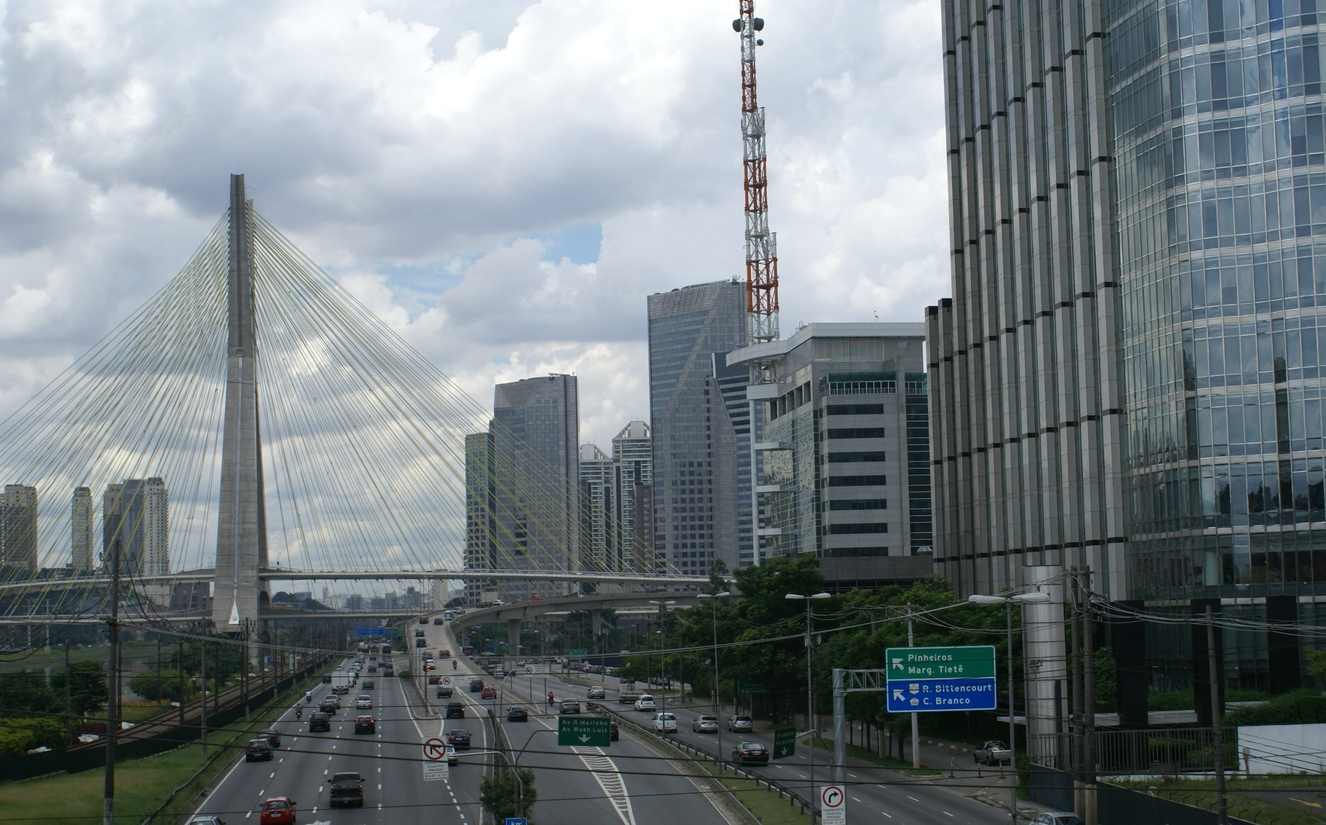 Marginal of Pinheiros River Expressway in CBD Brooklin, in São Paulo City, Brazil.